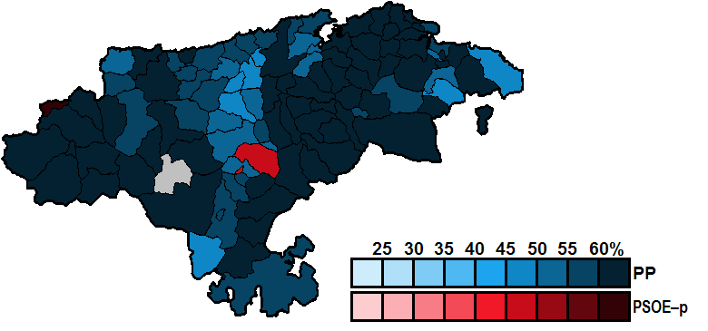 Most-voted party in Cantabria municipalities, showing vote share obtained, in the Spanish general election, 2000.